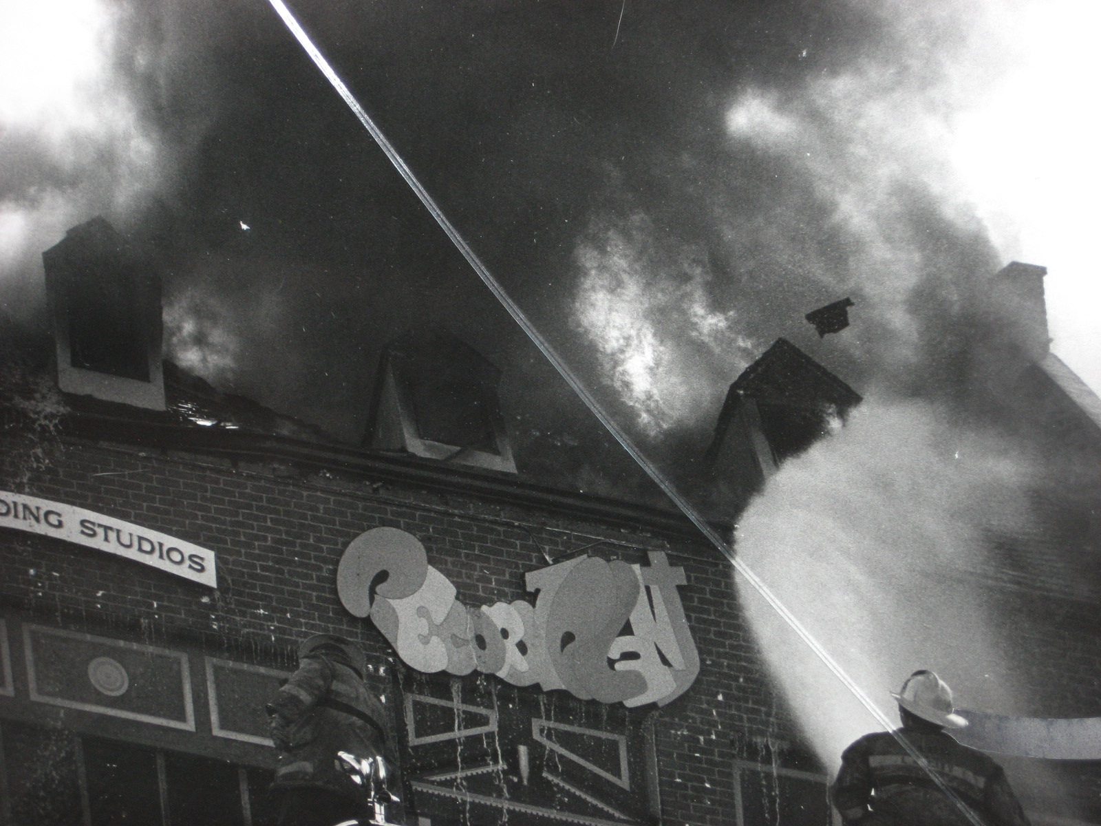 Fire in Los Angeles at the Record Plant. An electrical fire broke out in Studio C, destroying it.